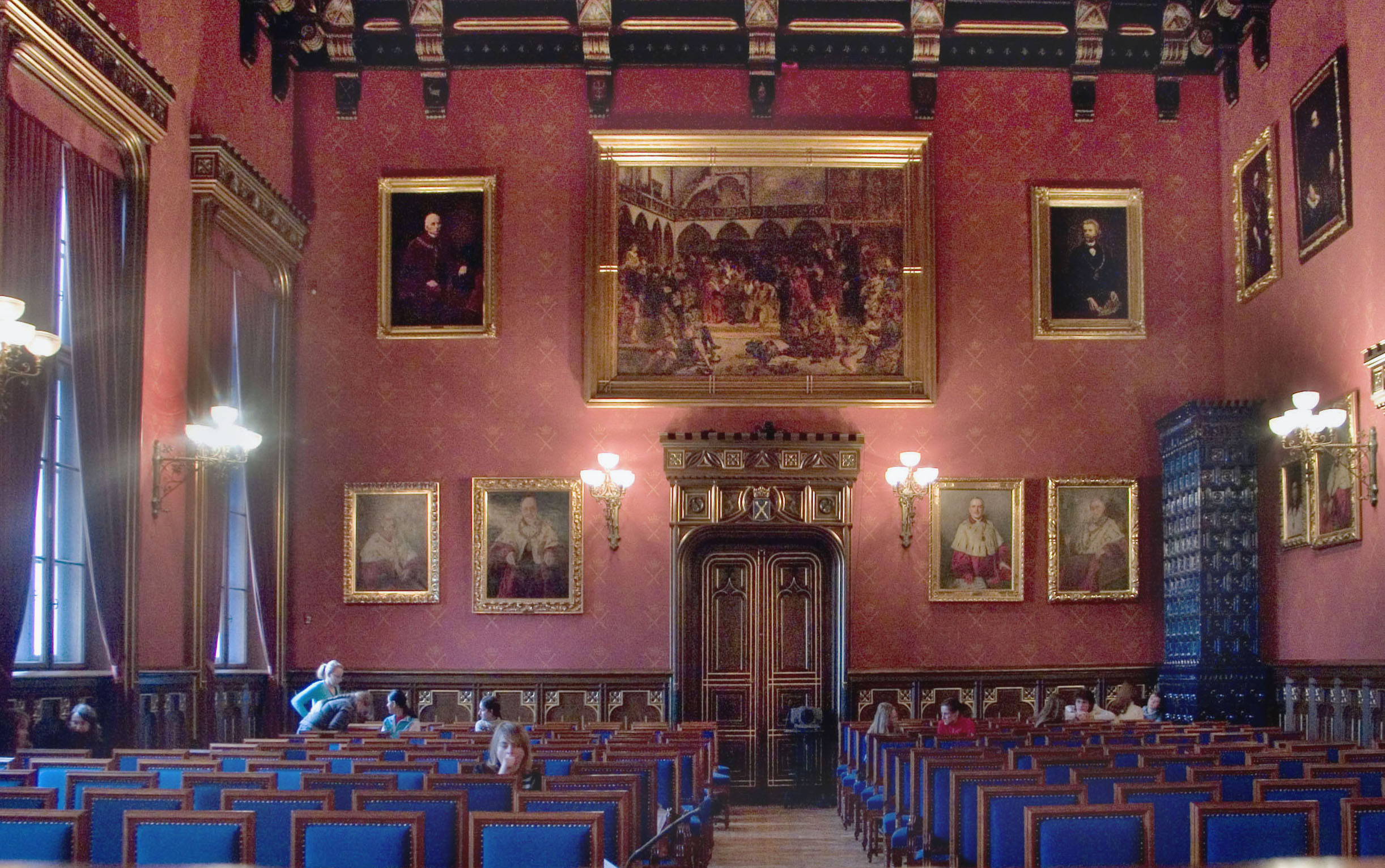 Aula (Lecture Hall) of Collegium Novum, Jagiellonian University, Krakow, Poland